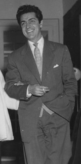 Alfonso Estela- actor español